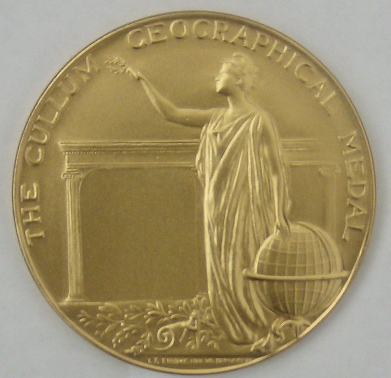 McCullum medal back